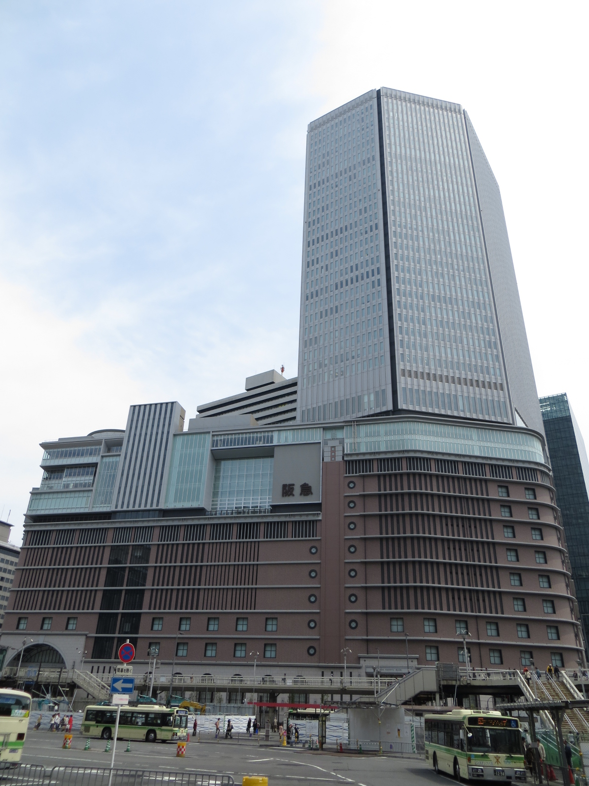 Umeda Hankyu Building and Hankyu Department Stores Umeda main store , Kita-ku, Osaka.